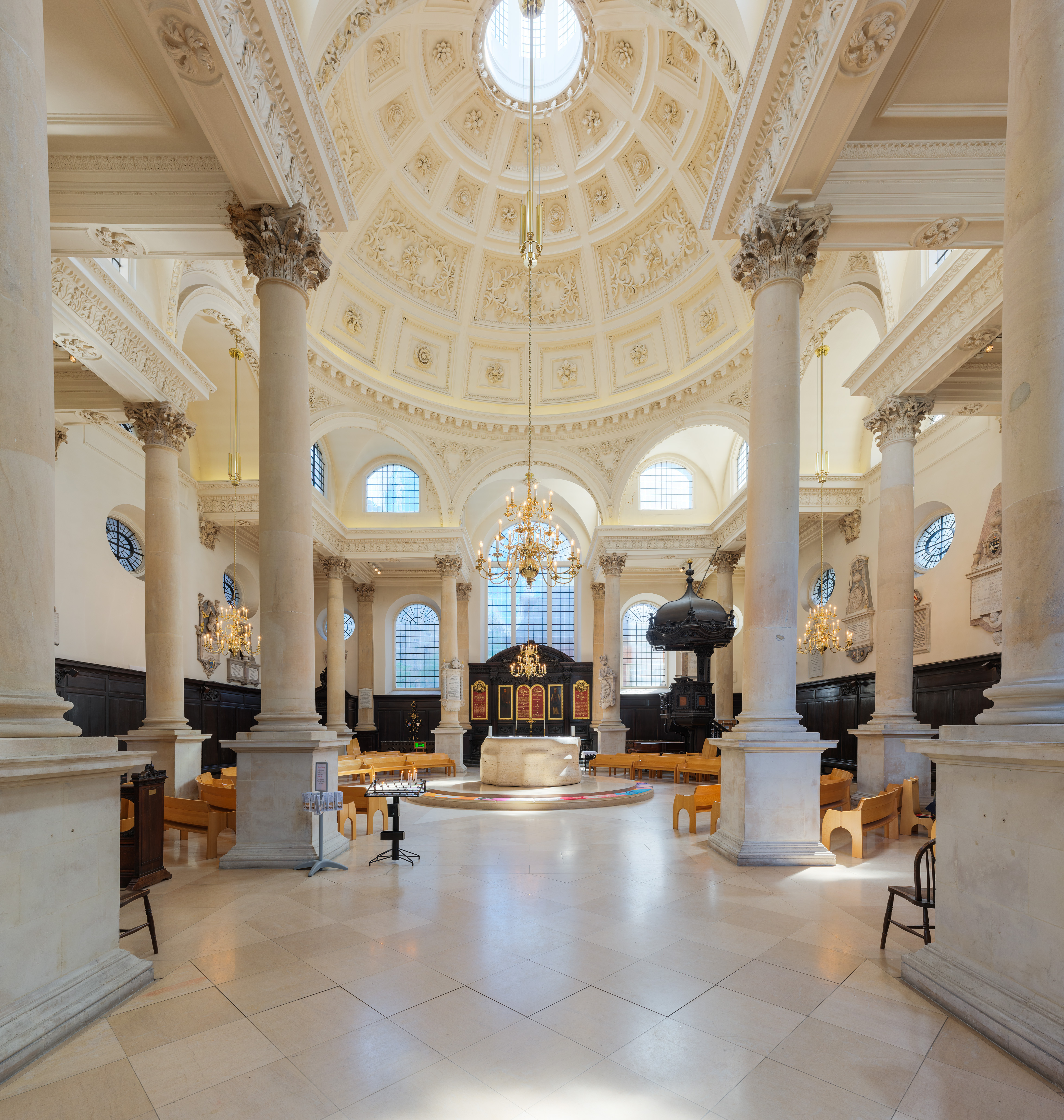 The interior of St Stephen Walbrook Church in London, England, looking across the central altar to the reredos.